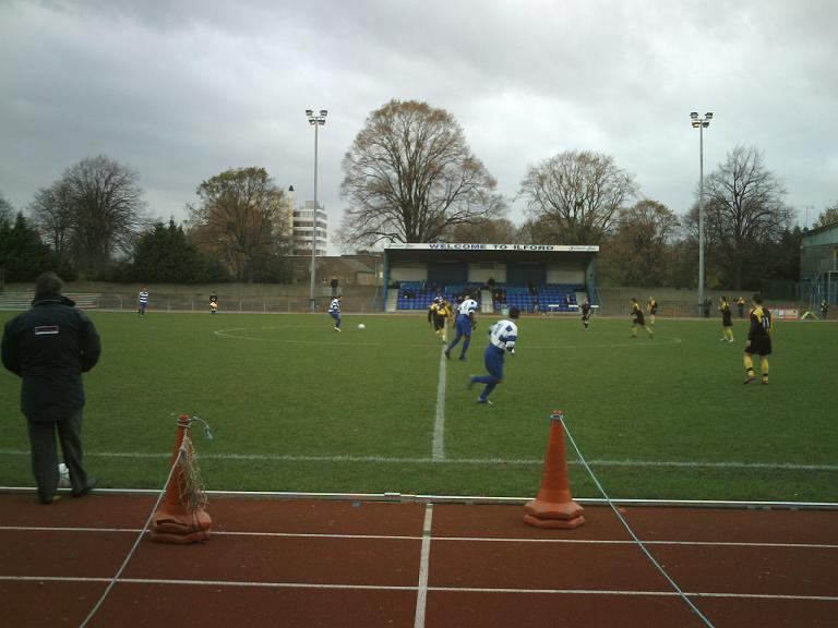 Ilford's Cricklefield Stadium; Ilford vs Arlesey Town